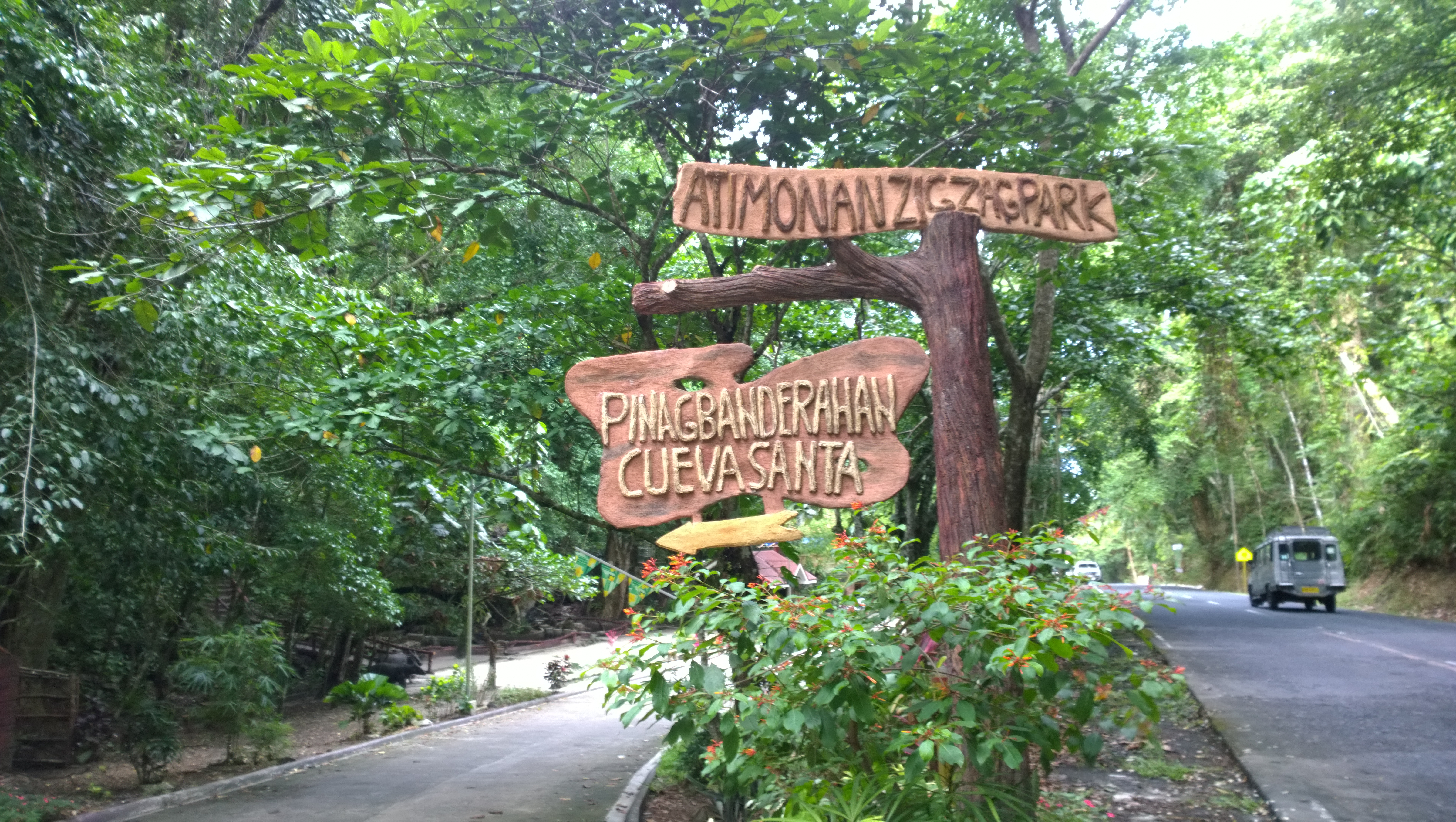 Atimonan Zigzag Park 260 AH26, Atimonan, Quezon, Philippines